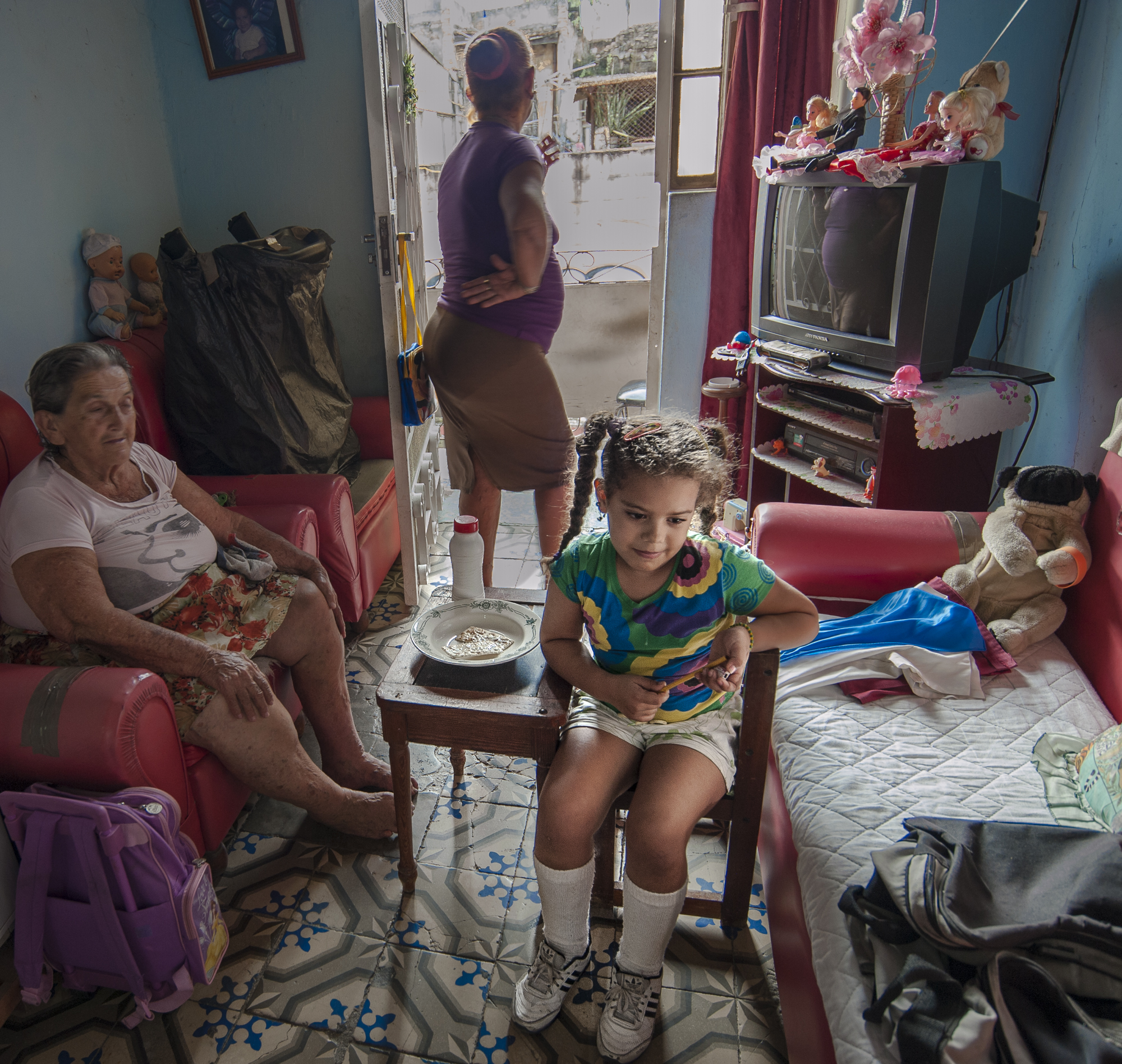 Three generations of women, Havana, Cuba Jan 2014 image by Marjorie Kaufman